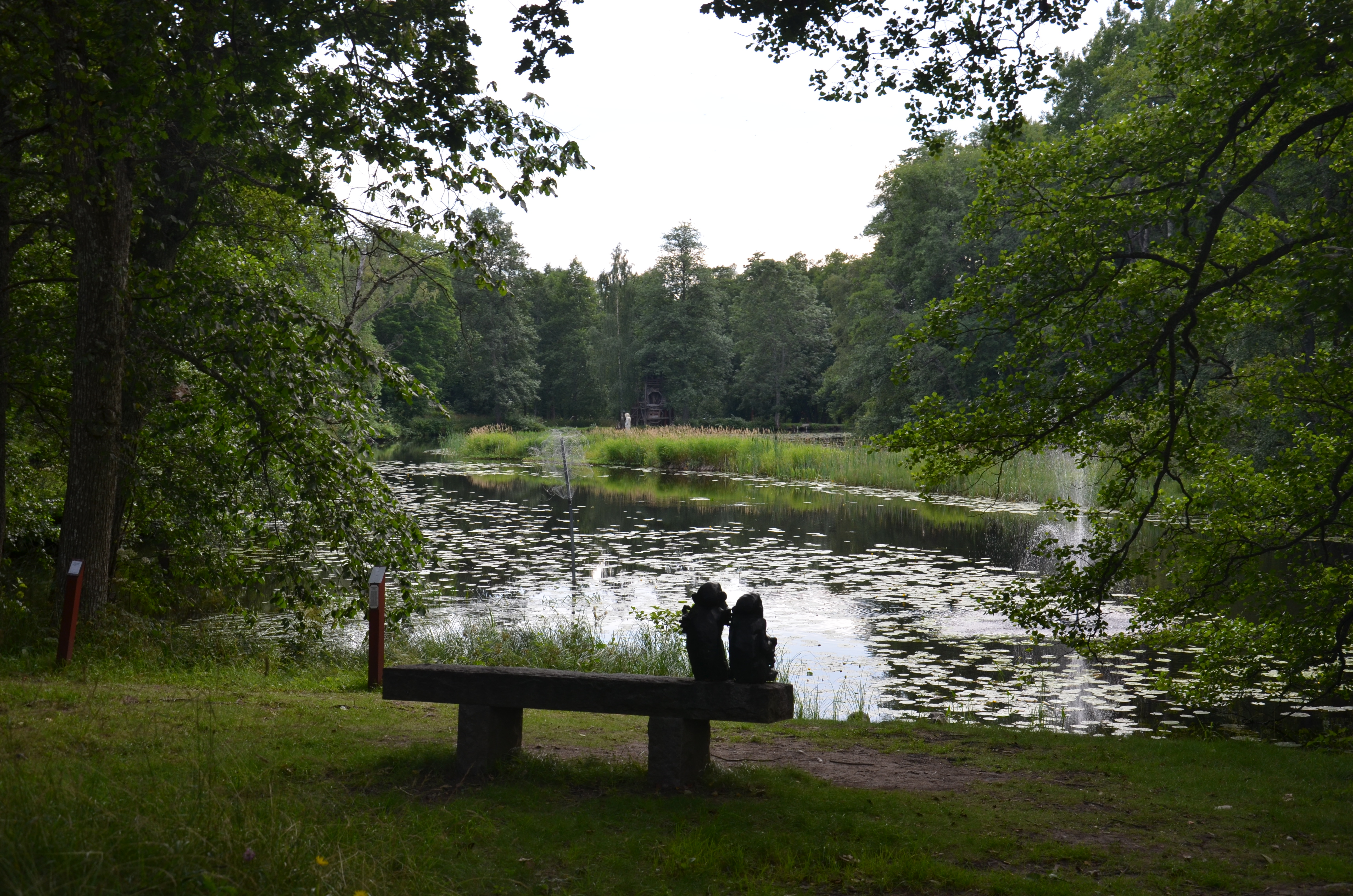 Engelsberg Sculpture Park, Sweden